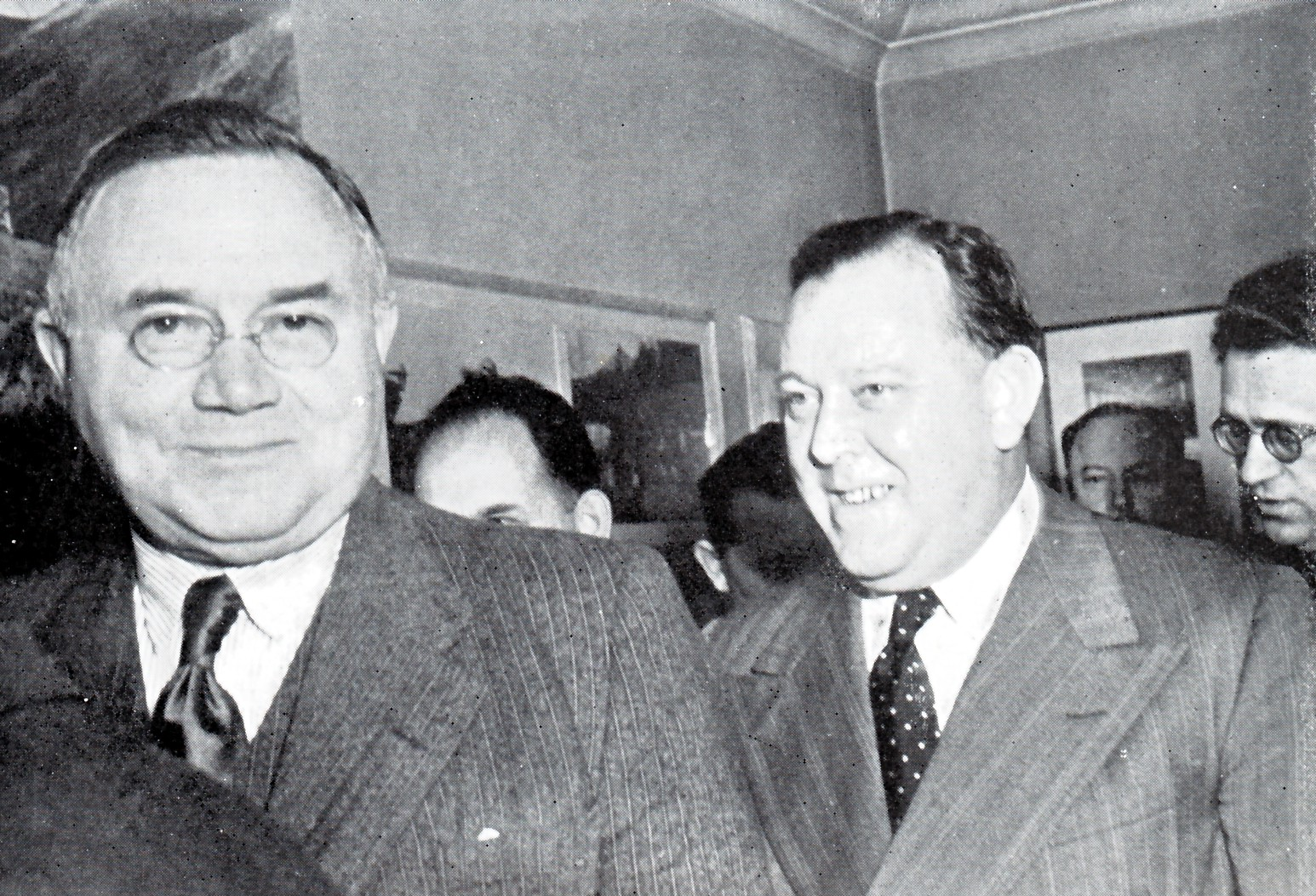 Norwegian prime minister Johan Nygaardsvold, centre, with Trygve Lie, right, following signing of military agreement between Norway and the Soviet Union in London in 1944.